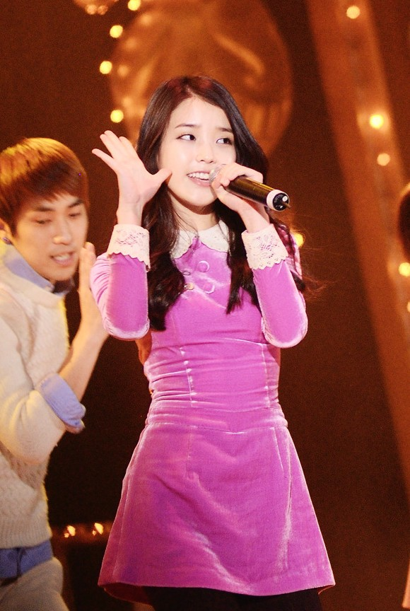 IU at Lotte World Peace TV, 17 December 2011